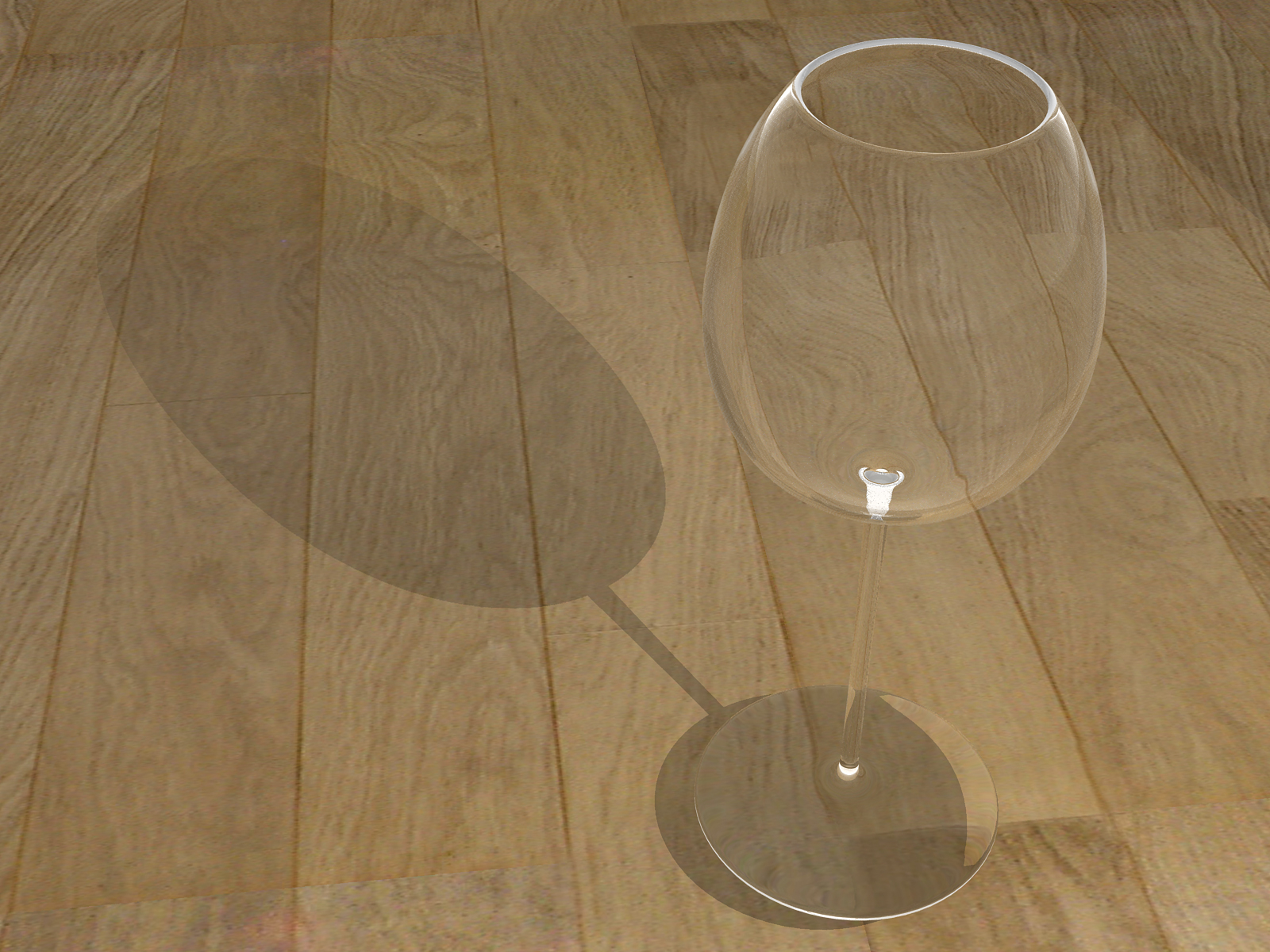 A glas out of a NURBS surface. In this image strip the energy of the emitted caustics photons changed. In this image the energy was at 0. No calculation of caustics Rendered with mental ray (raytraceing).